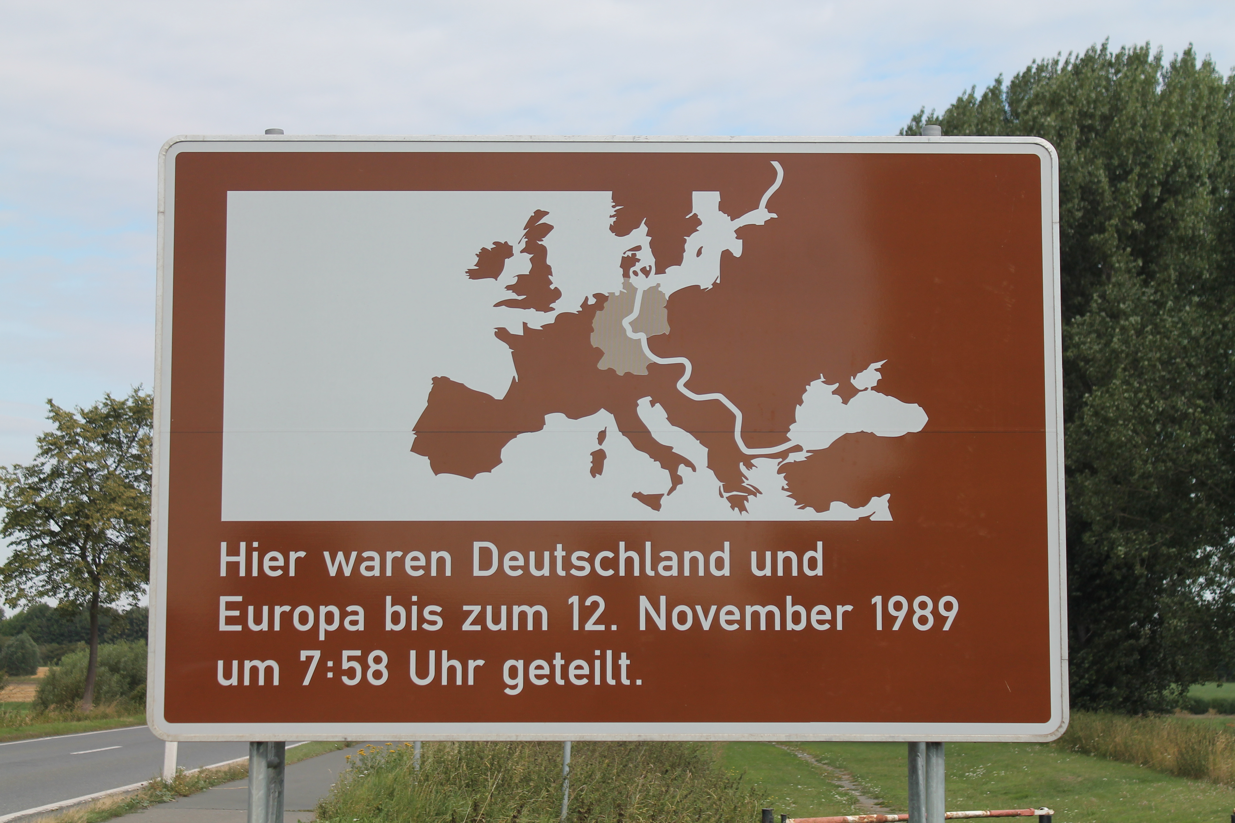 At this place Germany and Europe were divided until Nov. 12, 1989 7:58 a.m. ("Hier waren Deutschland und Europa bis zum 12. November 1989 um 7:58 Uhr geteilt.") Information sign at the Bundesstraße 79 between Mattierzoll (Lower Saxony) and Hessen (Saxony-Anhalt). Hessen, Saxony-Anhalt, Germany.